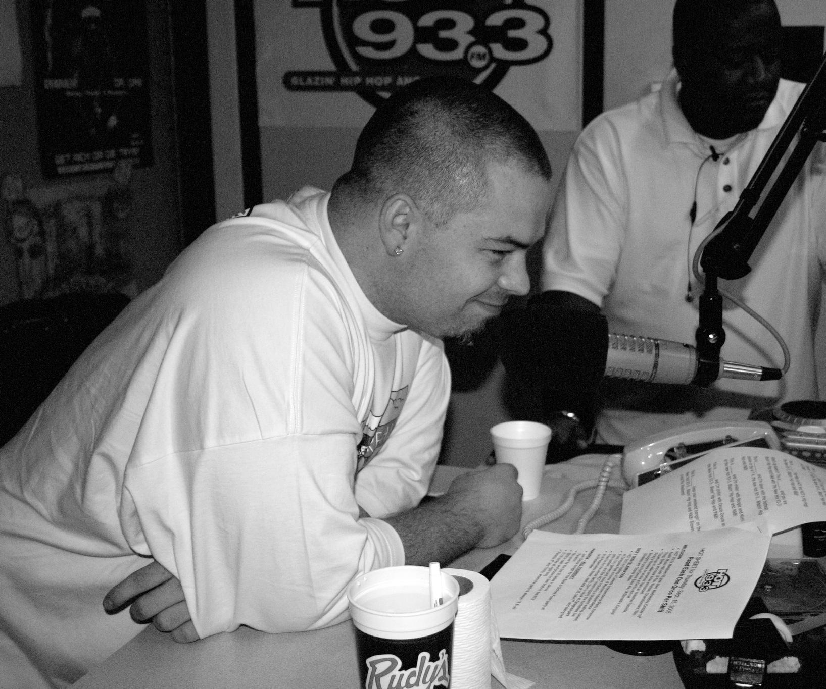 Slim Thug at the KDHT studio